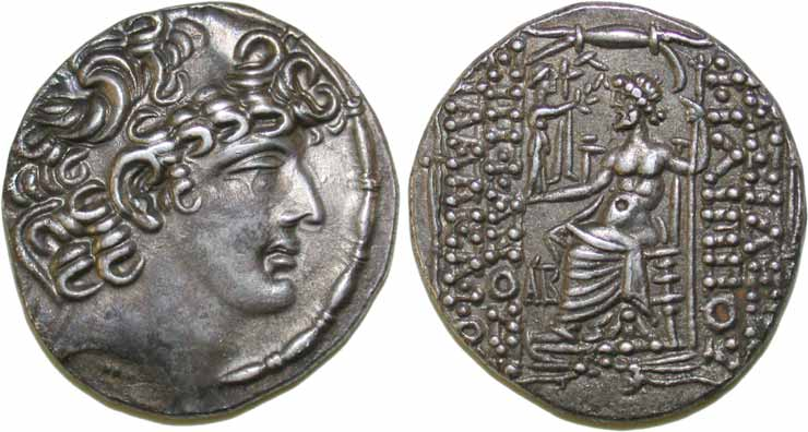 Coin from the Roman province of Syria, imitating coins of former Seleukid king Philip Philadelphos. Obv.: Philip Philadelphos, rev.: Zeus enthroned. 64 BC - c. 34 BC.